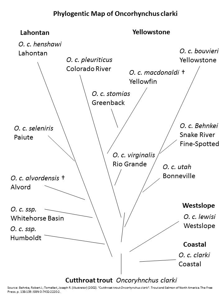 Phylogenetic map of Oncorhynchus clarki. Self drawn based on diagram in Behnke, Robert J. (2002) "Cutthroat trout Oncorhynchus clarki" in Trout and Salmon of North America, The Free Press, pp. 138-139 ISBN: 0-7432-2220-2.